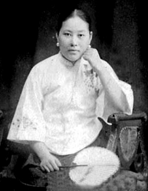 Portrait photograph of Shi Jianqiao (1905-1974) as a young woman.